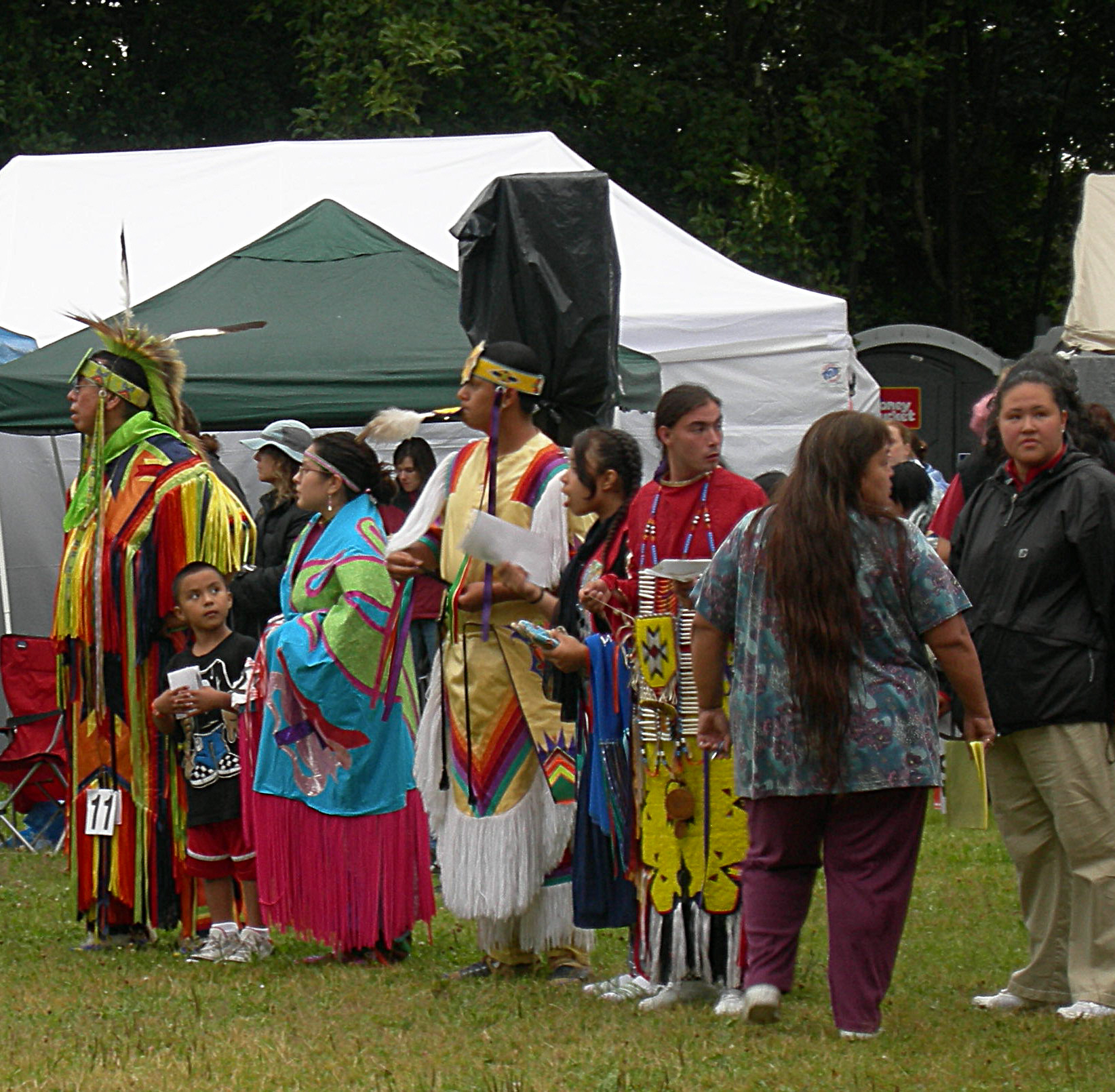 Dancers in regalia during formal entrance ceremony, Seafair Indian Days Pow Wow, Daybreak Star Cultural Center, Seattle, Washington. The event is part of Seafair (a series of annual summer events in Seattle) and under the aegis of the United Indians of All Tribes Foundation.